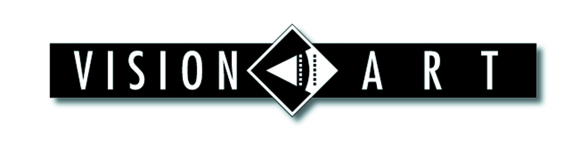 VisionArt logo with text